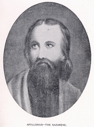 "Apollonius - The Nazarene". Apollonius of Tyana.